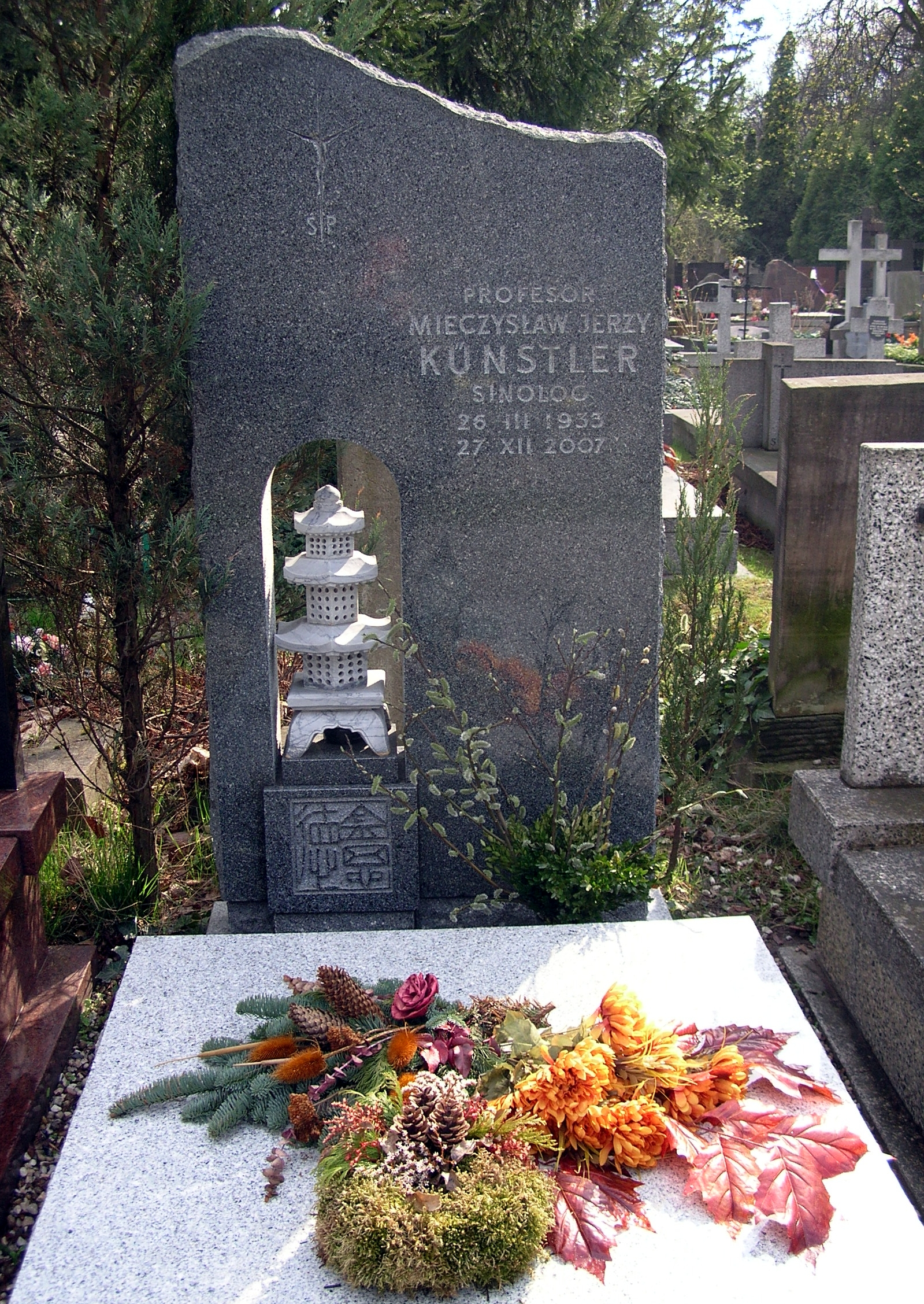 Tomb of Mieczysław Jerzy Künstler